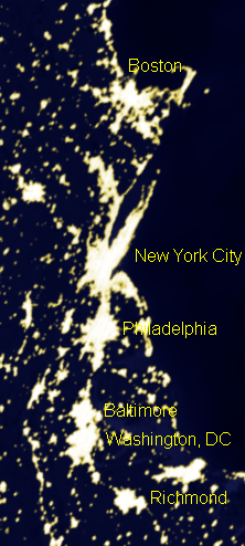 Labeled version of Image:BosWash-Night.png